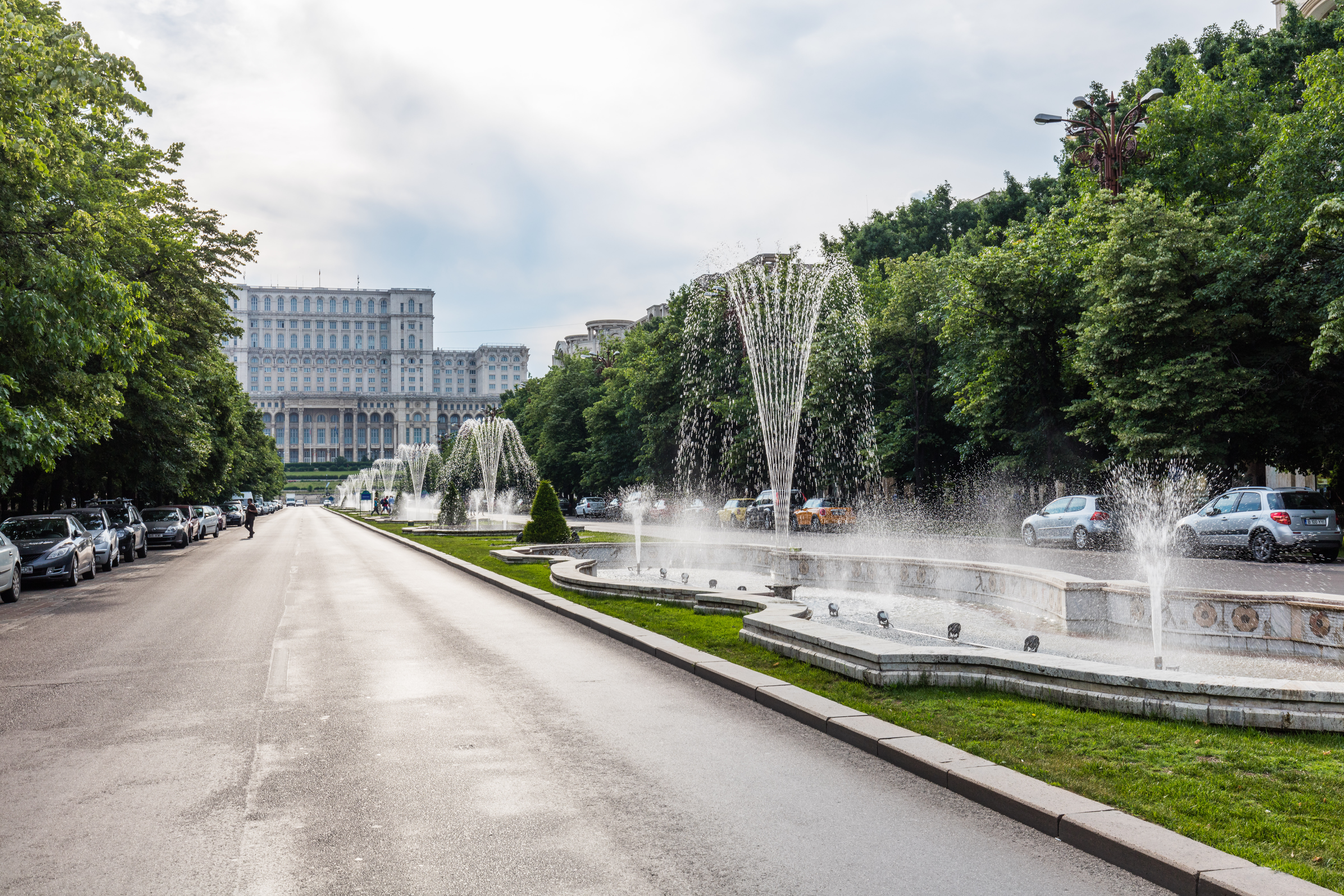 Unity Avenue, Bucharest, Romania